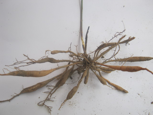 Roots of Asparagus officinalis found in Panchkhal Valley.